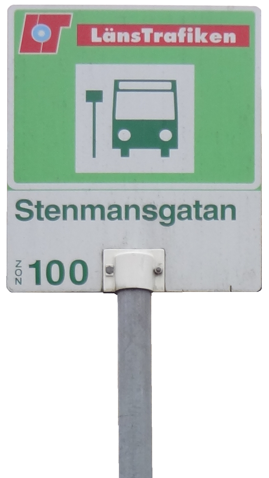 Bus stop sign in Eskilstuna Sweden